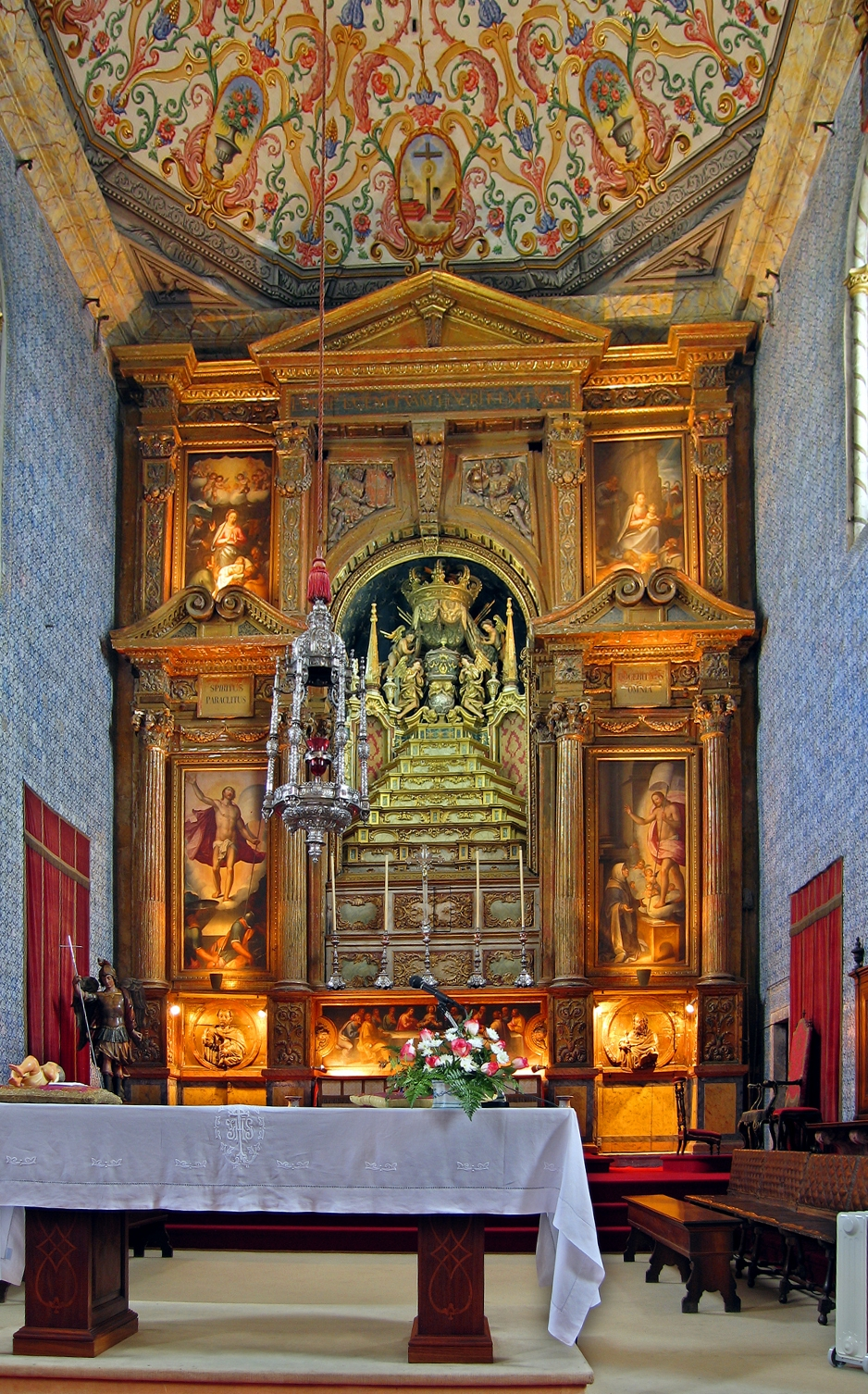 The church oft the University of Coimbra